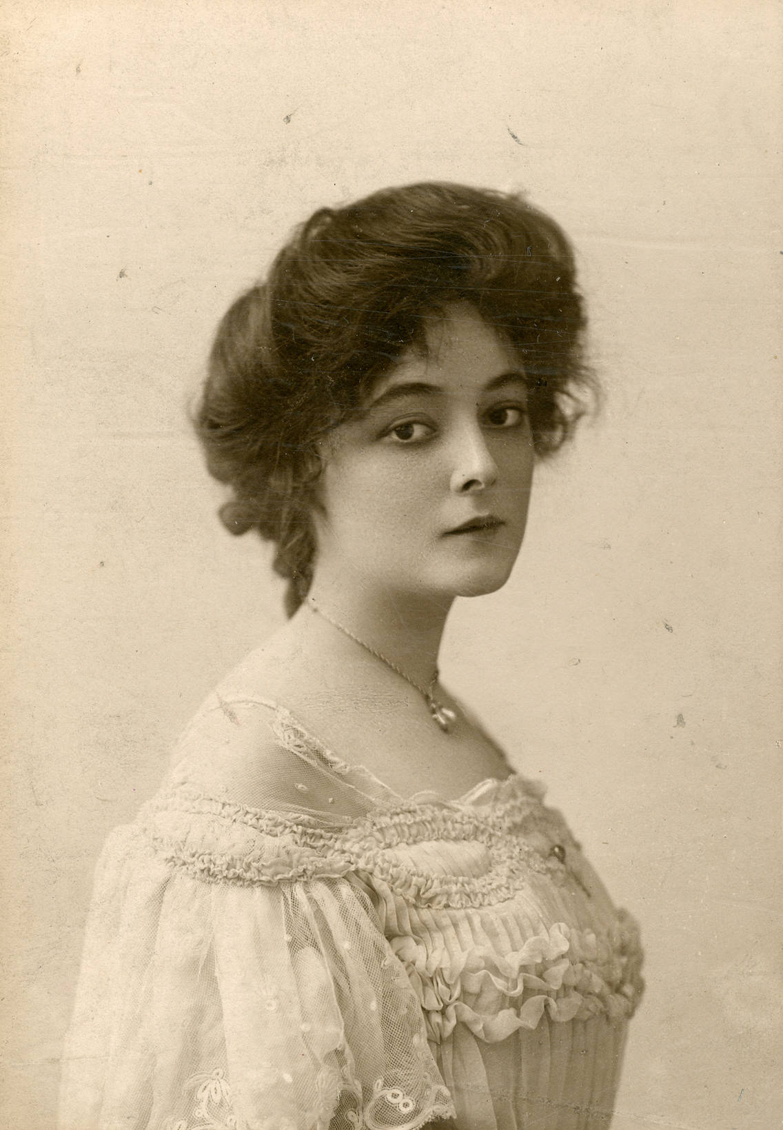 Marie Doro, stage actress Subjects: actresses